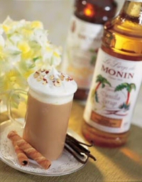 Monin Coffee Syrup